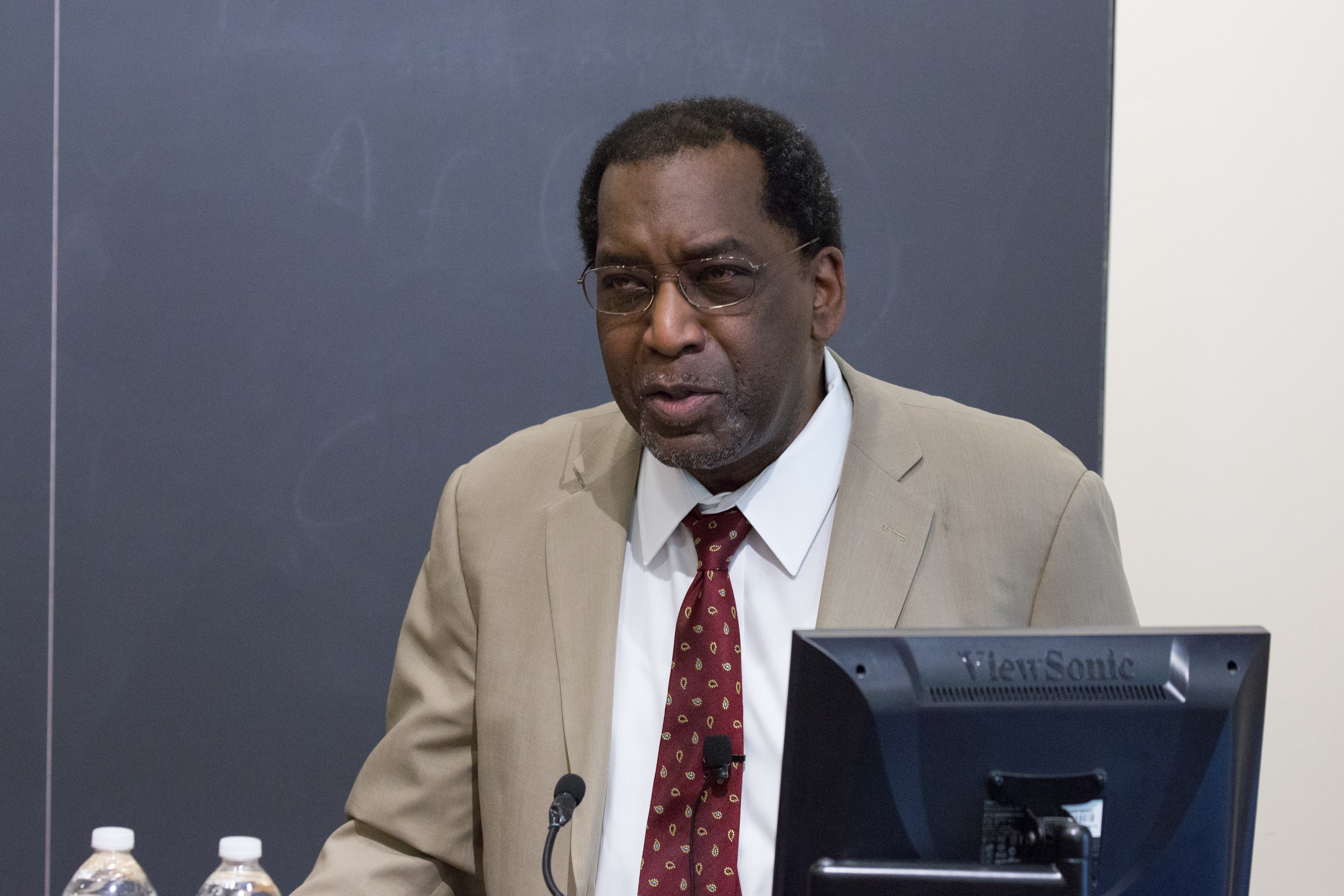 Charles M. Payne at the Edmond J. Safra Center for Ethics.